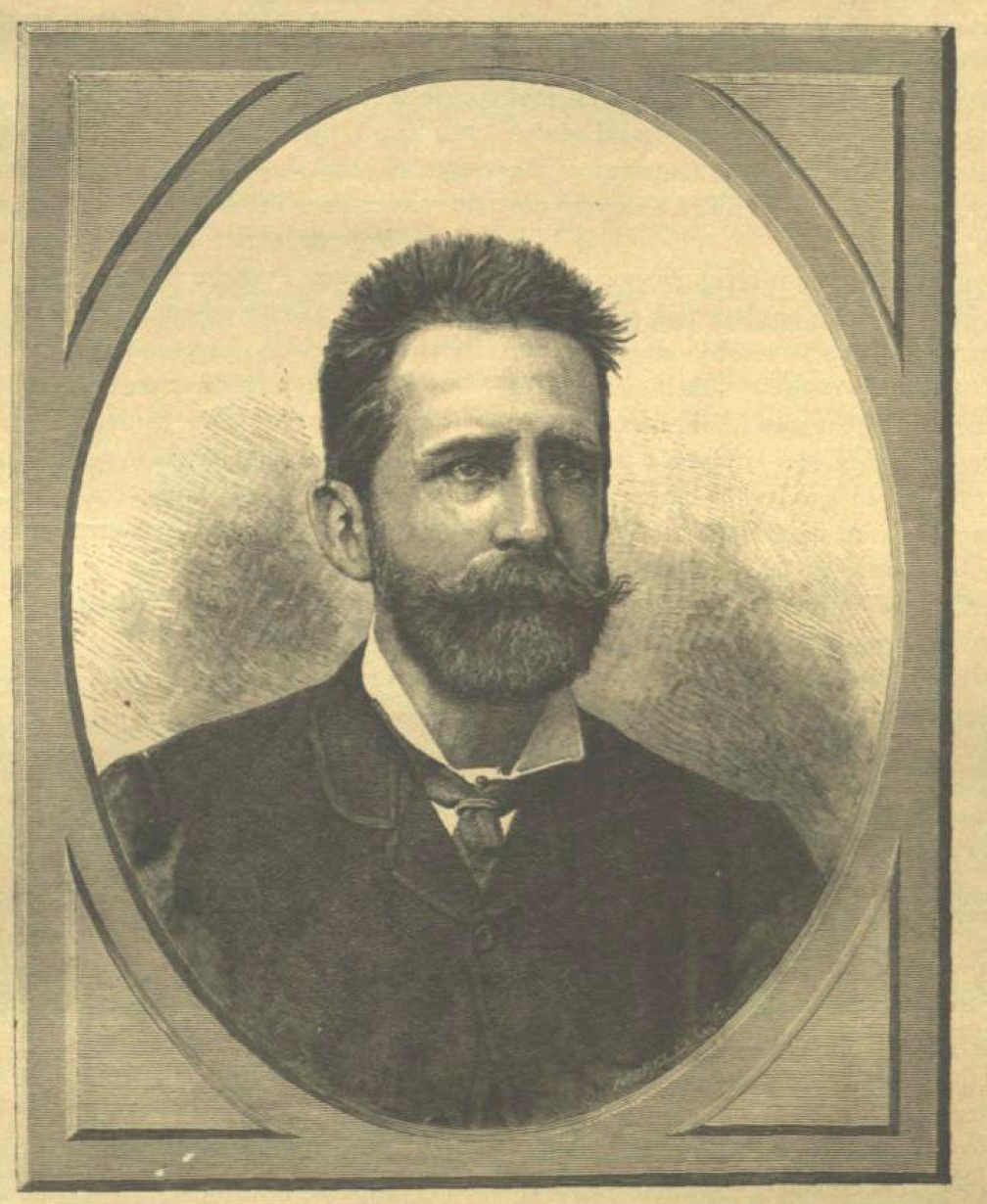 László Szőgyény-Marich, Jr. (1840–1916)